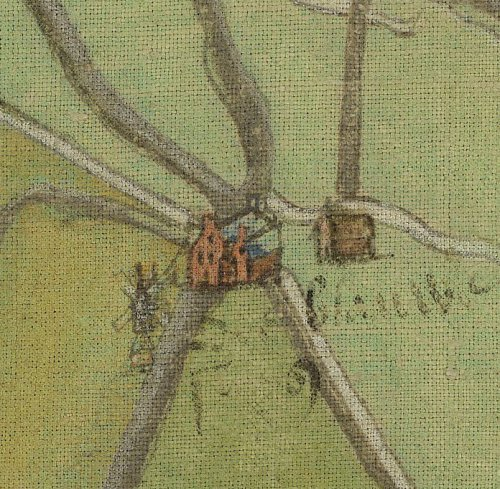 Detail of the 1560 map by Pieter Sluyter, showing the hamlet of Blauwe-Sluis, now part of the municipality Drimmelen, Noord-Brabant, The Netherlands.